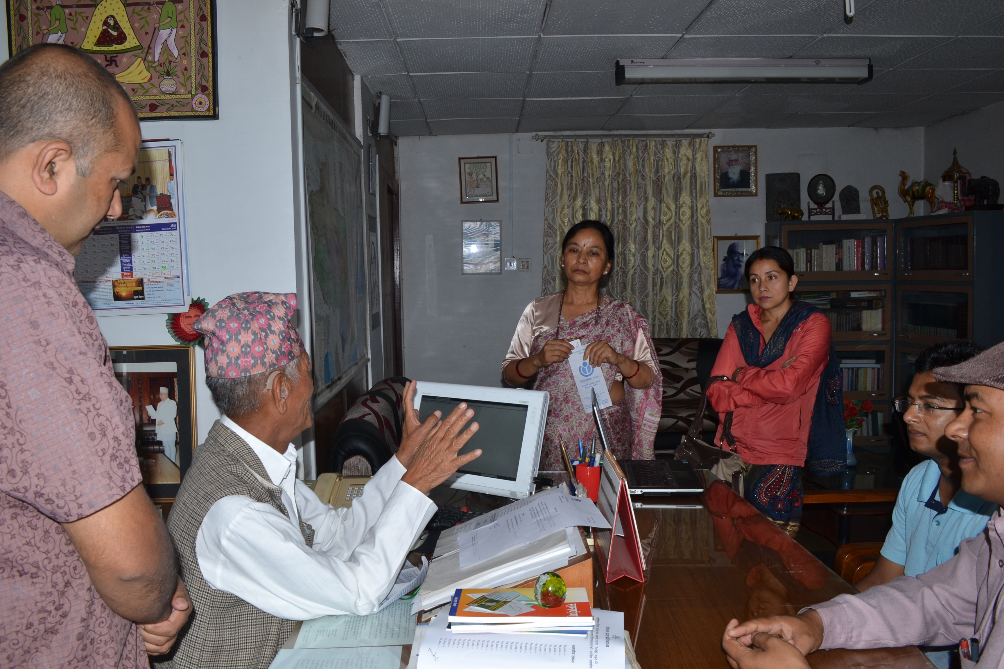 Literature Sulochana manandhar dhital with wiki Committe .